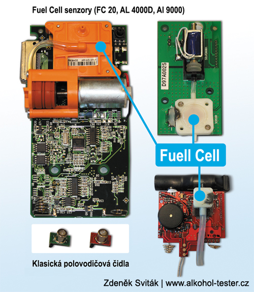 Senzory nebo tez cidla alkohol testeru